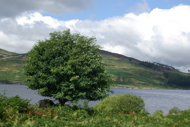 Cat's Stone Beneath the rowan tree and partly hidden by the bracken lies the Cat's Stone